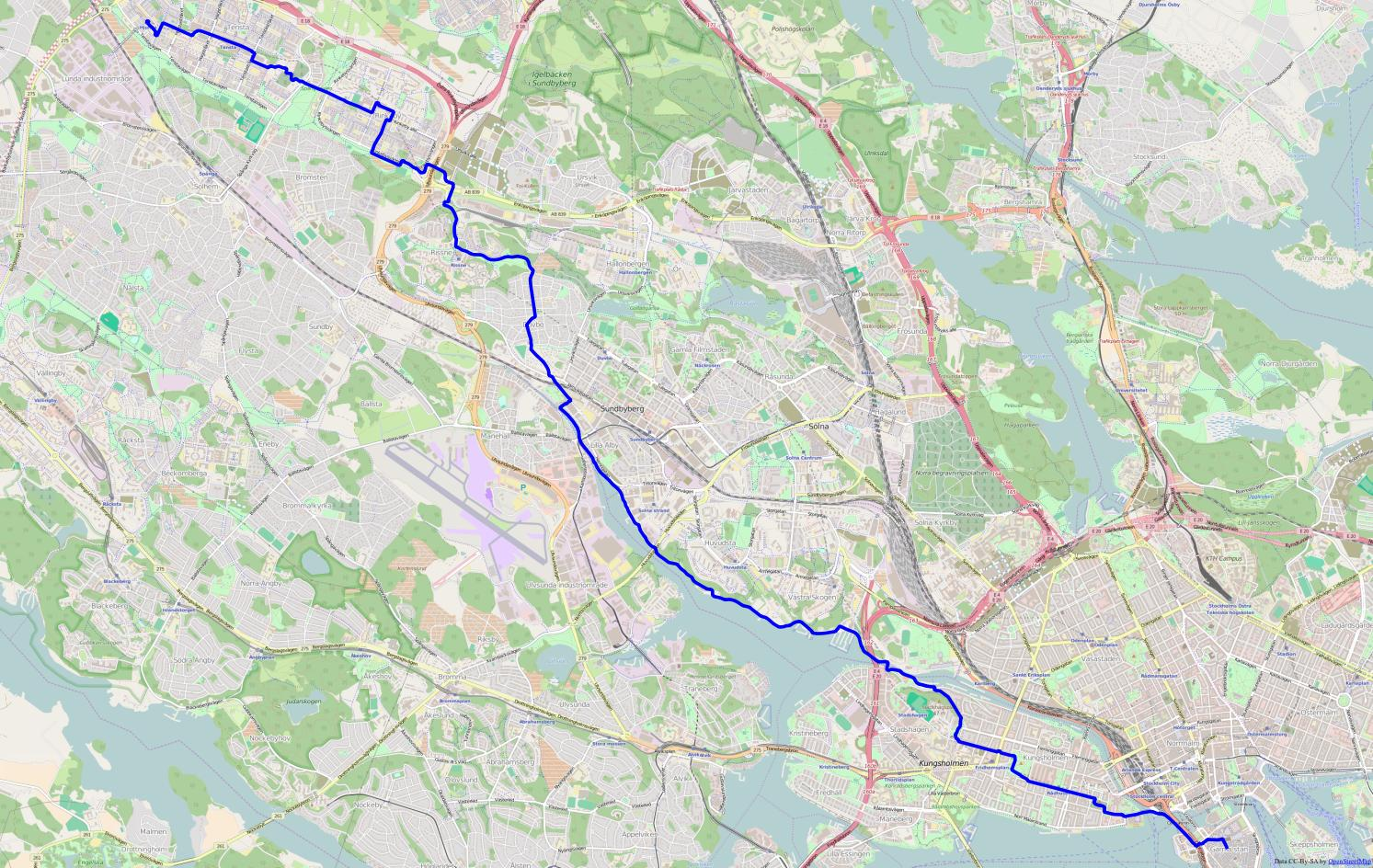 The Hjulstastråket hiking trail in Stockholm, Sweden.